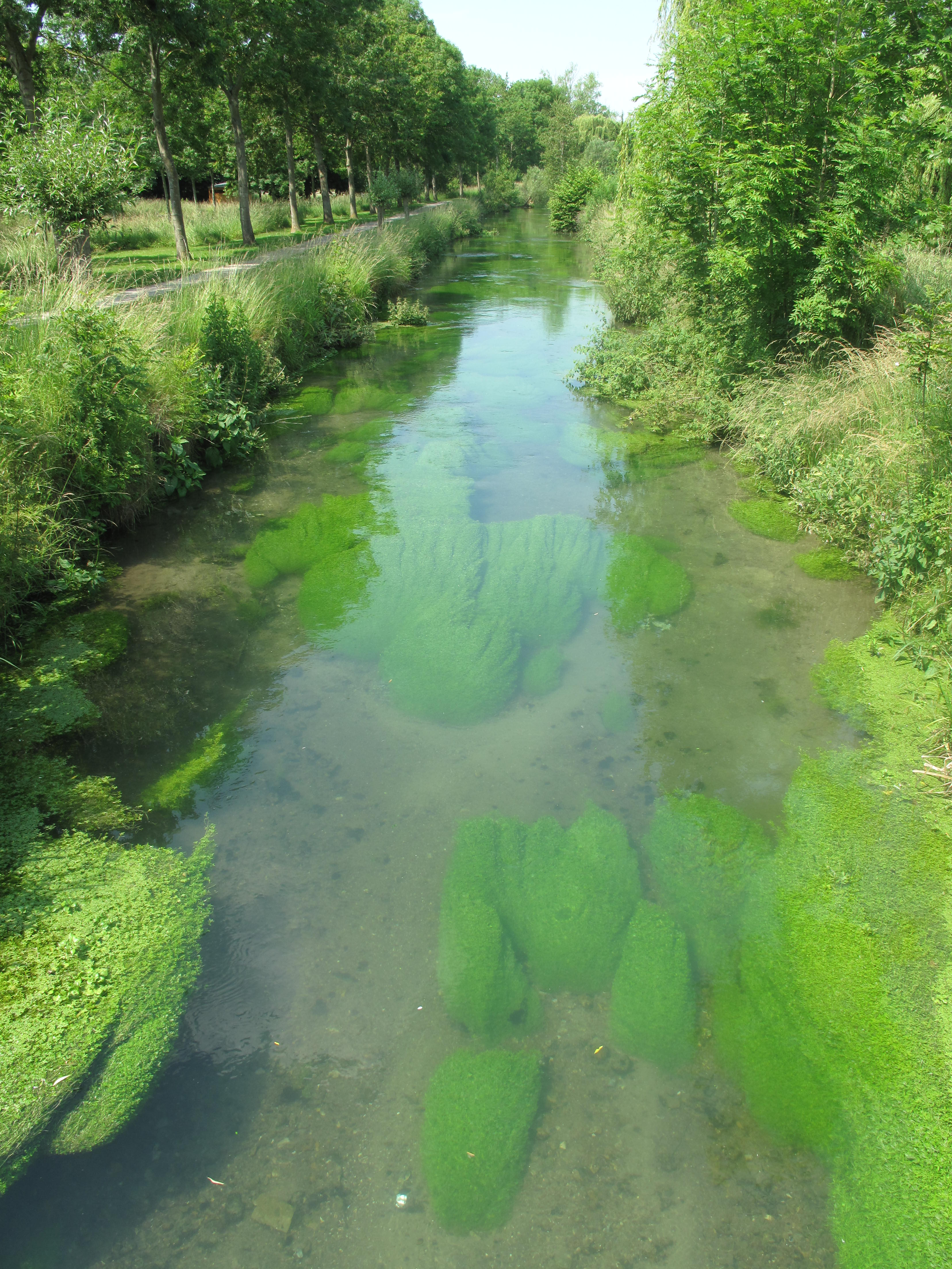 The little river le Novion in the park of la Bouvaque in the north of Abbeville, France.